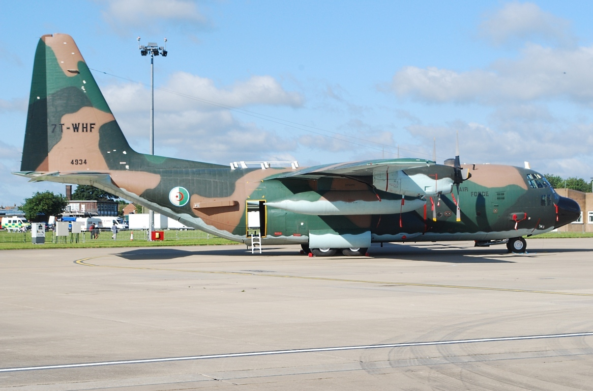 RAF Waddington Airshow 2012